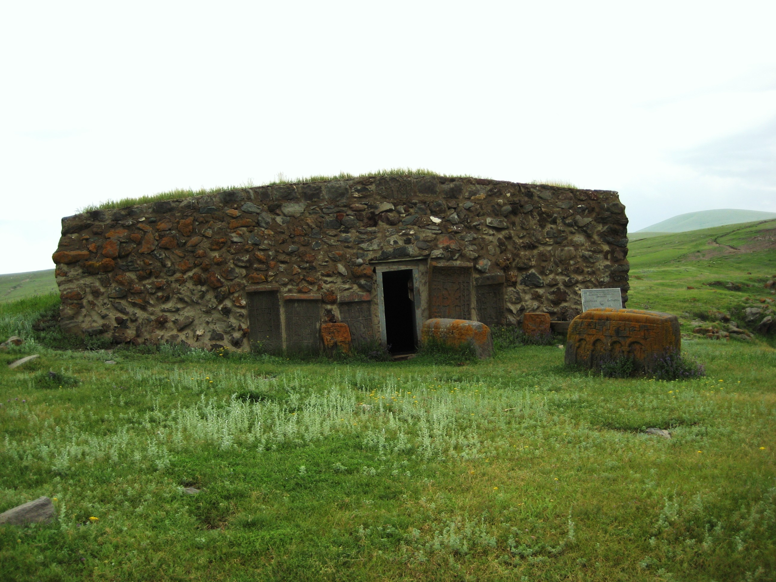 Surb Sarkis Church of Tsovinar